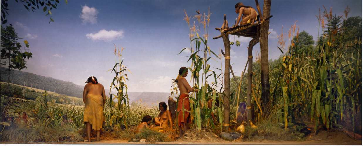 Photograph of diorama depicting Iroquois family planting beans, corn, and squash. For educational purposes only.